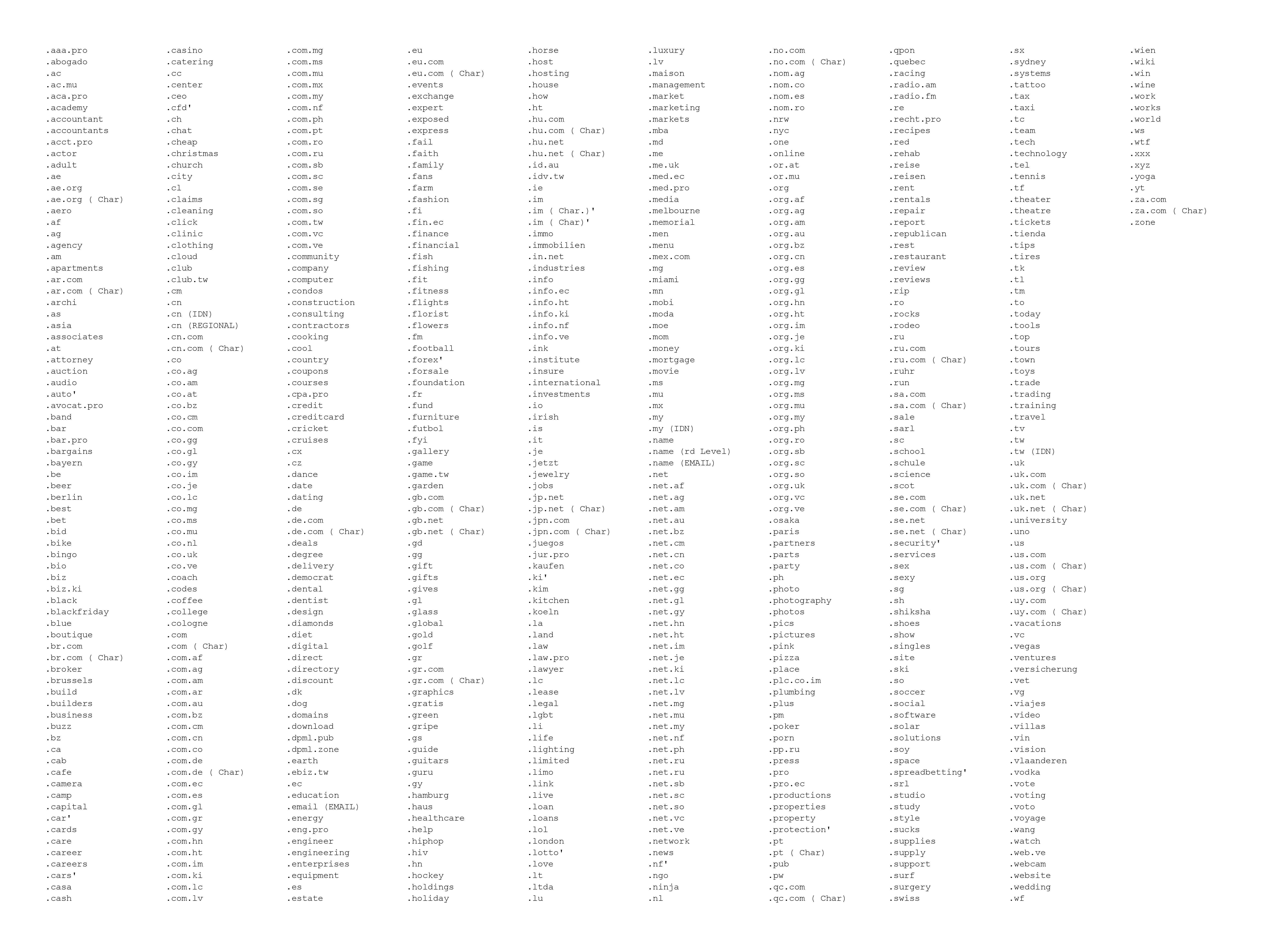 All Internet Domains as jpg Picture